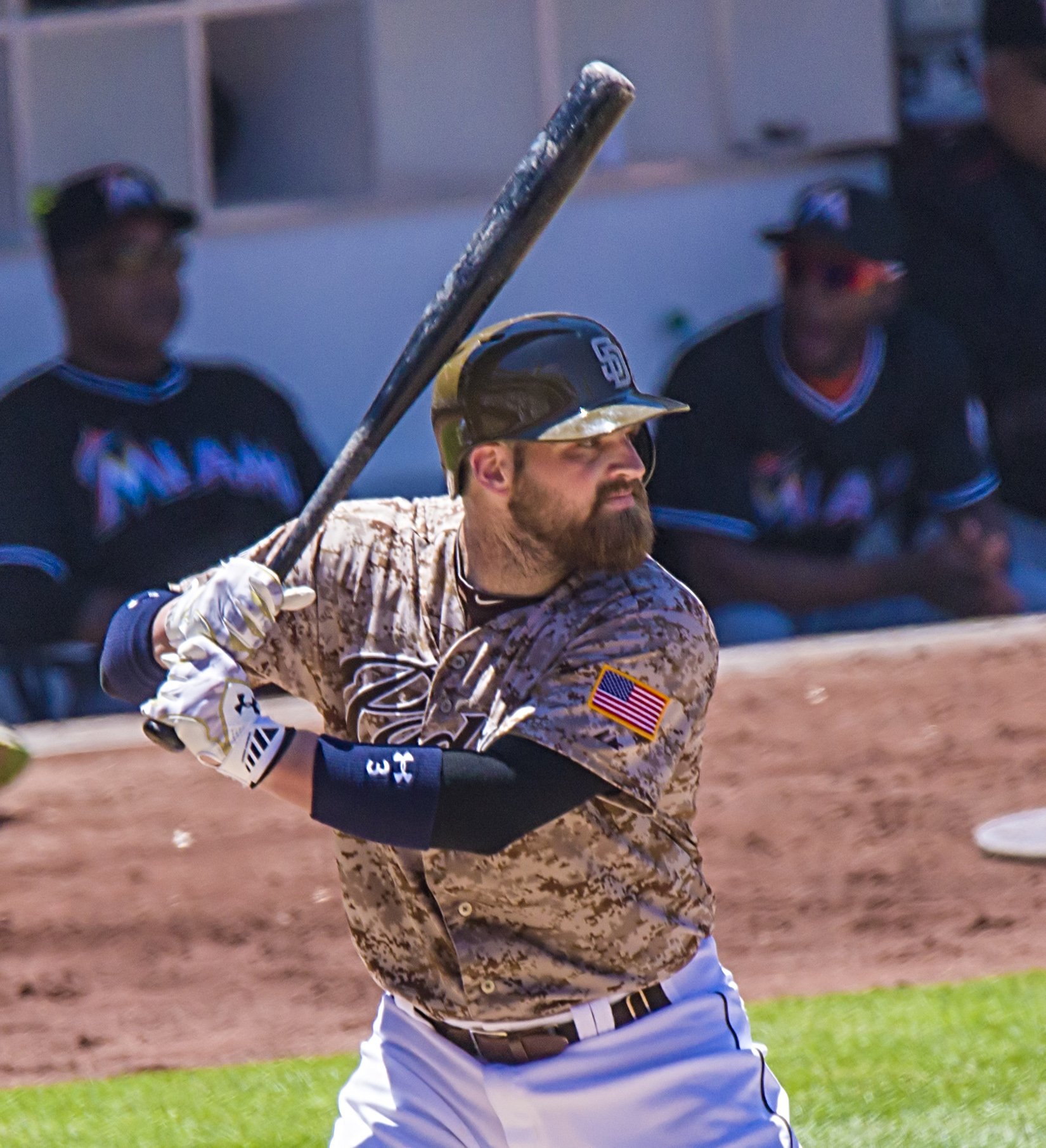 Derek Norris batting for the San Diego Padres on July 26th, 2015